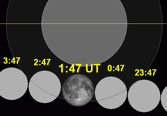 November 2002 lunar eclipse chart of moon's penumbral lunar eclipse path through the earth's shadow. thumb